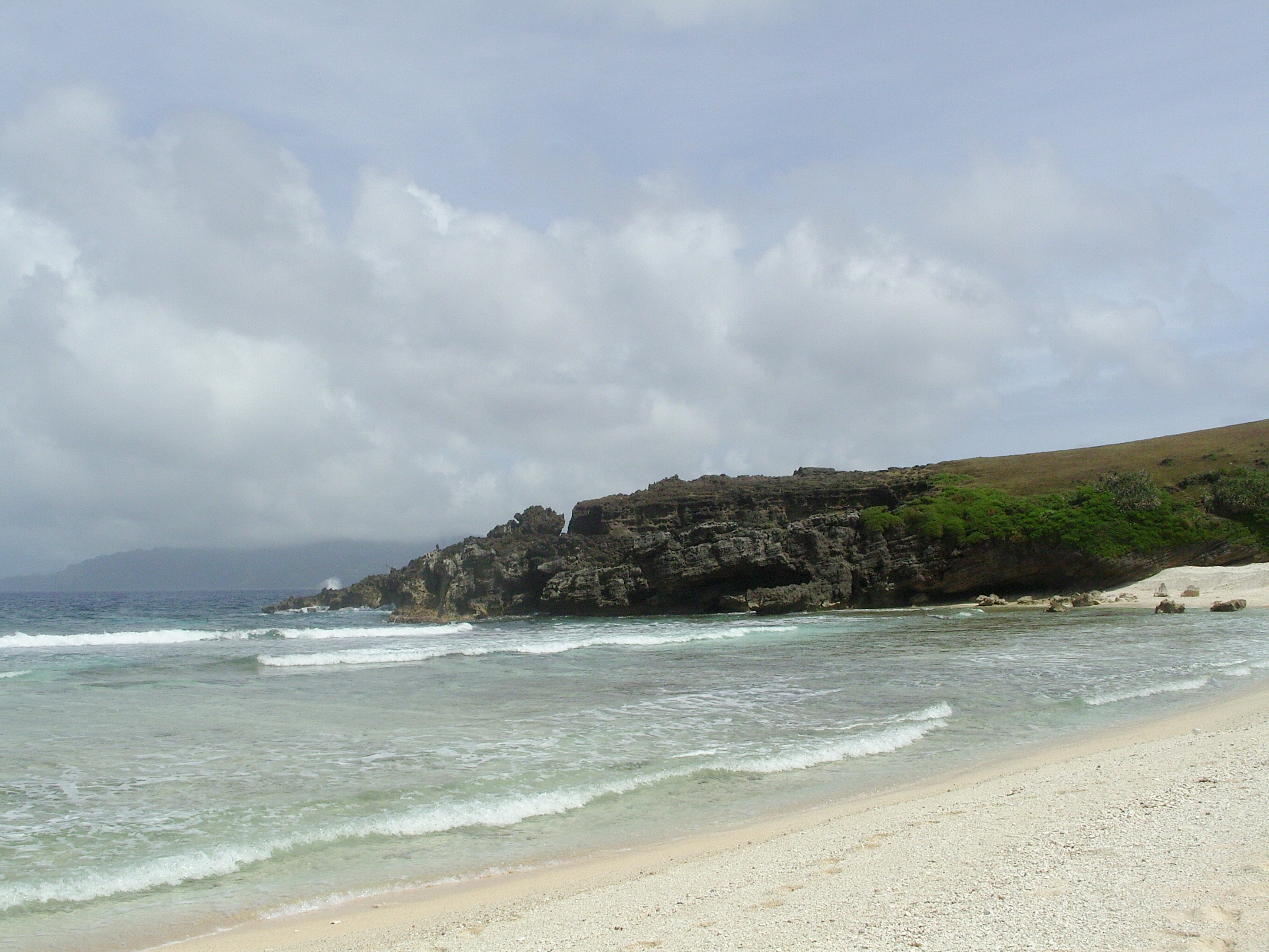 White sand beach in Sabtang Island, Batanes, Philippines